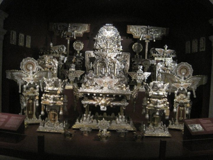 Photo of James Hampton's Throne of the Third Heaven of the Nations' Millennium General Assembly in the Smithsonian American Art Museum